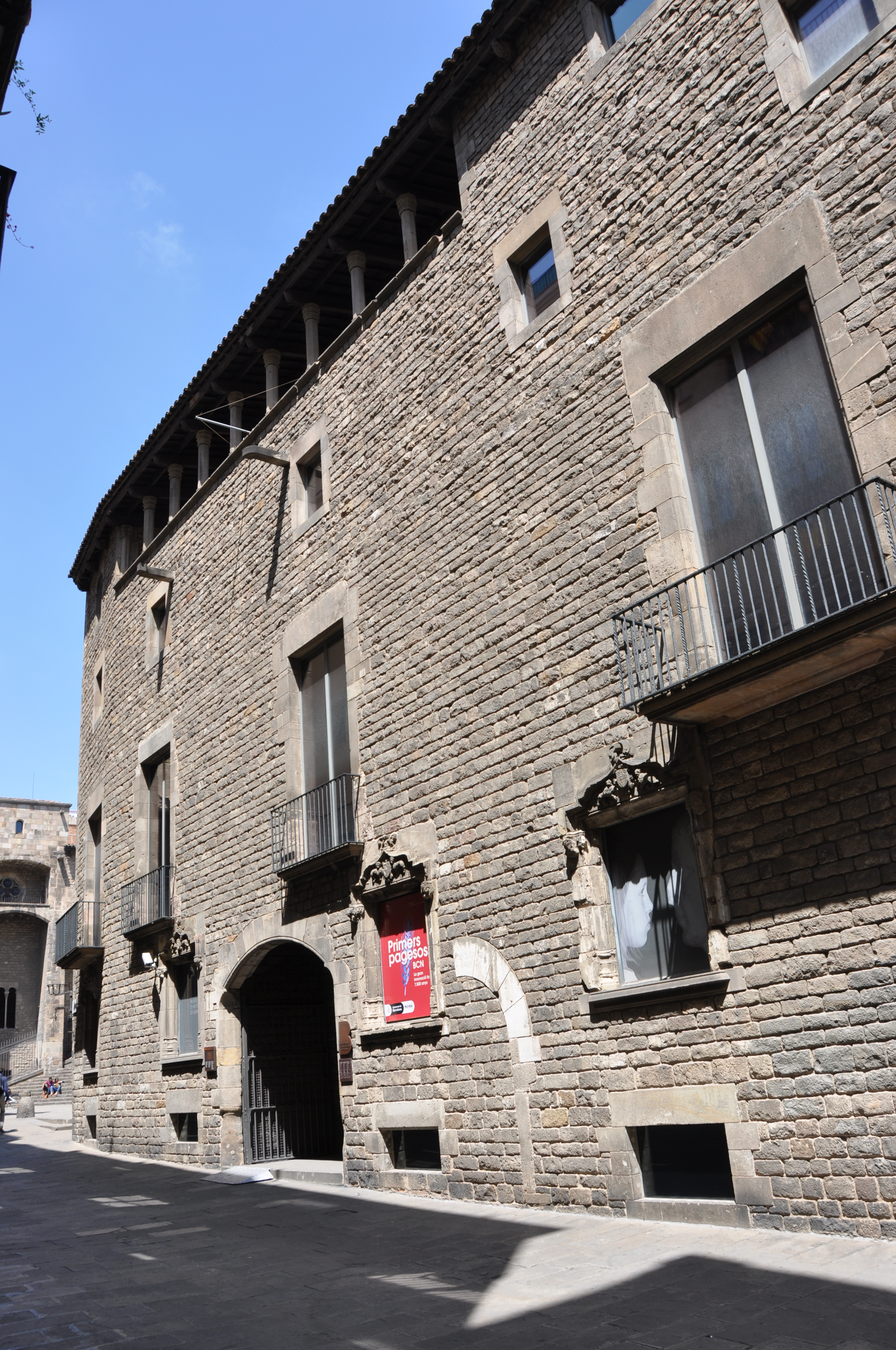 Padellas's House (Barcelona City History Museum) Facade at Carrer del Veguer